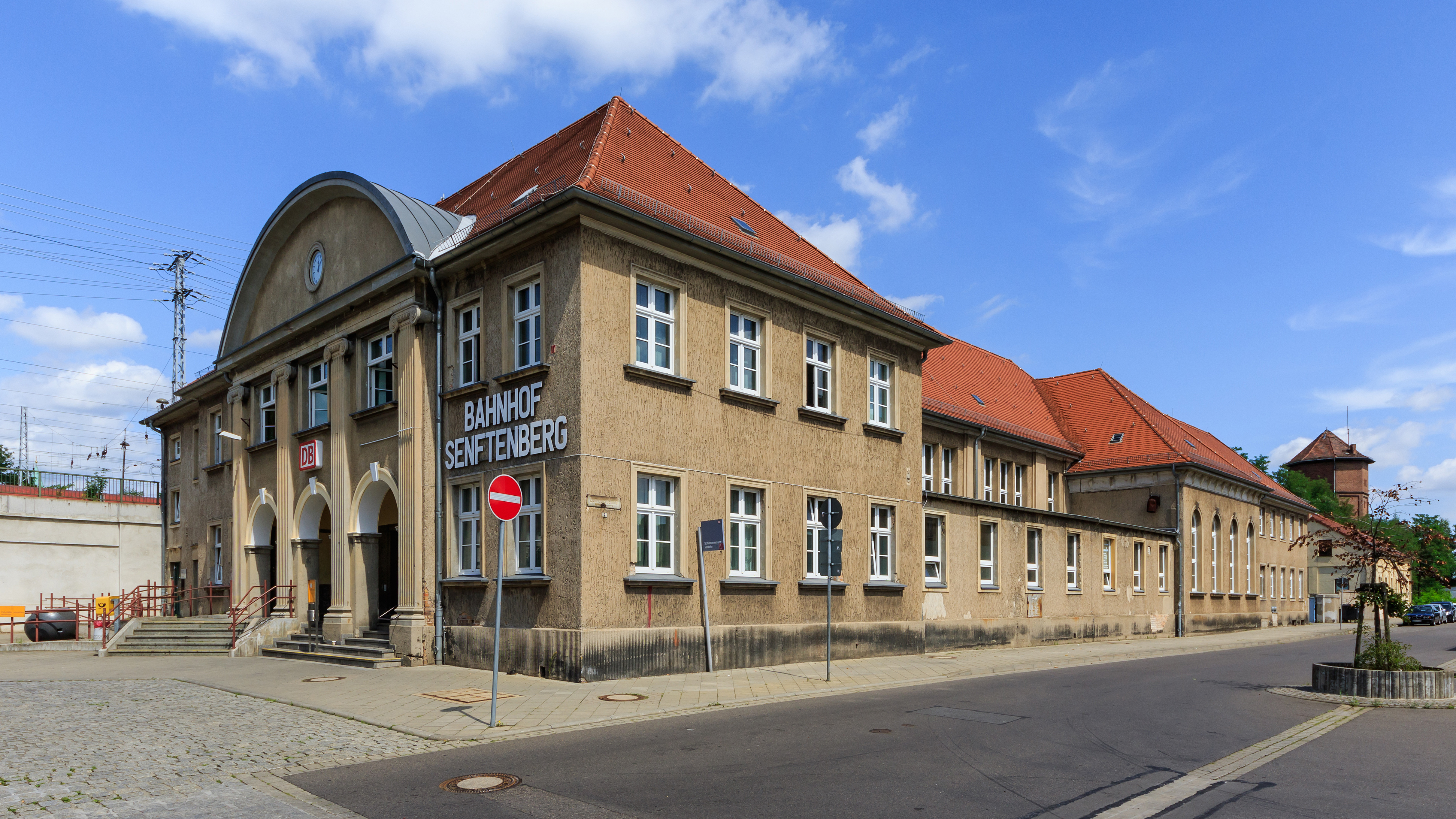 Train station in Senftenberg, Brandenburg, Germany